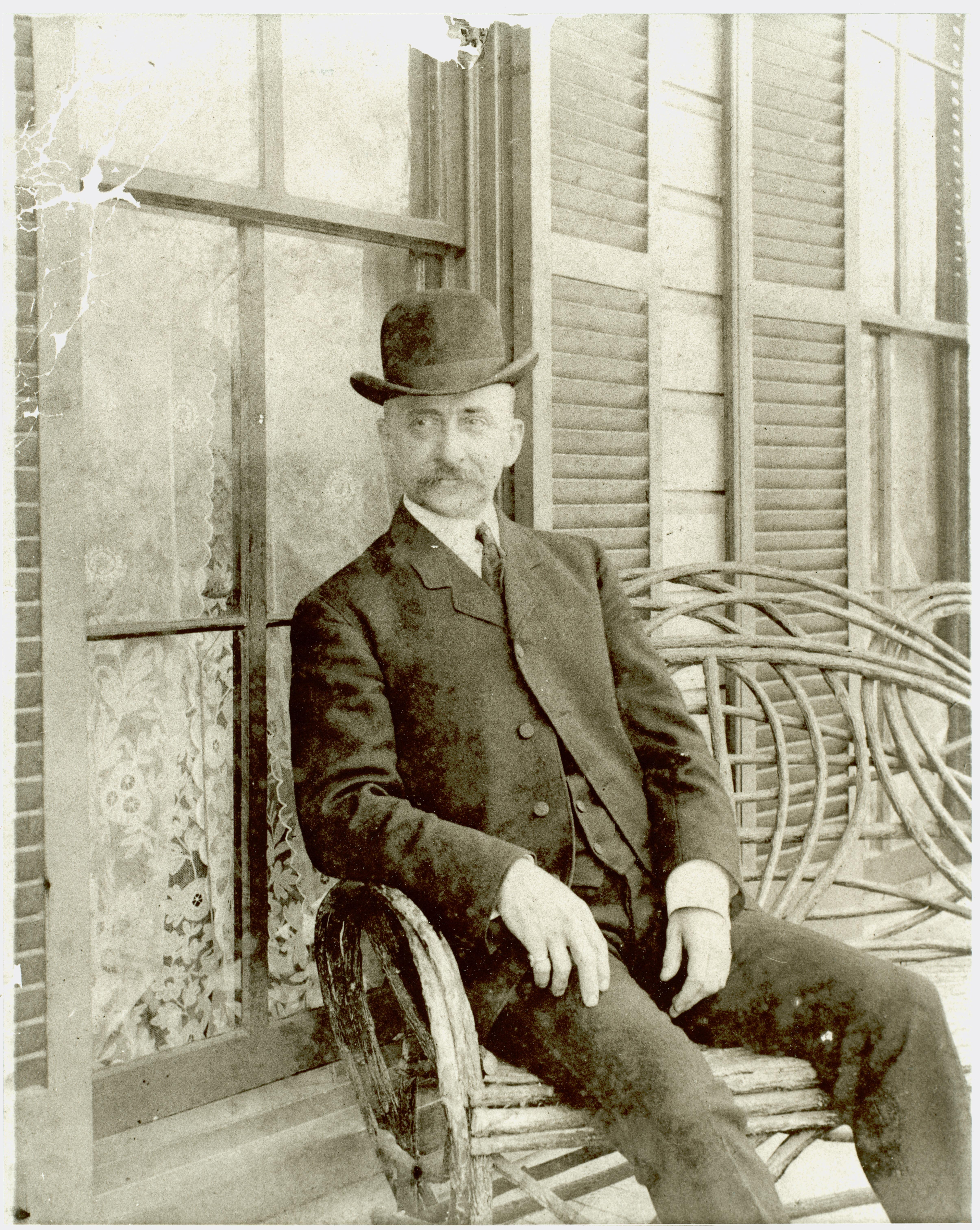 Dickerson Naylor Hoover, Director Hoover's father, who worked for the Coast Guard and Geodetic Survey.